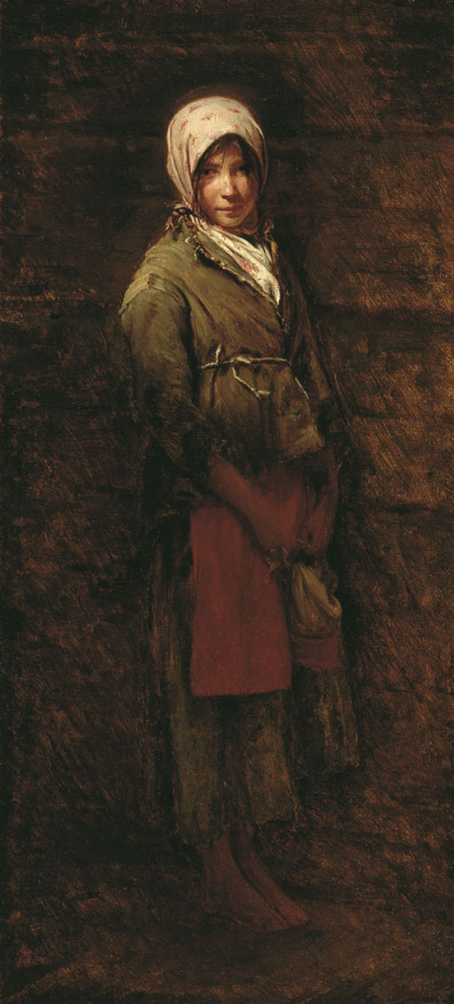 Kirill Vikentevich Lemokh (Karl Lemoch) (1841-1910) Beggar Girl